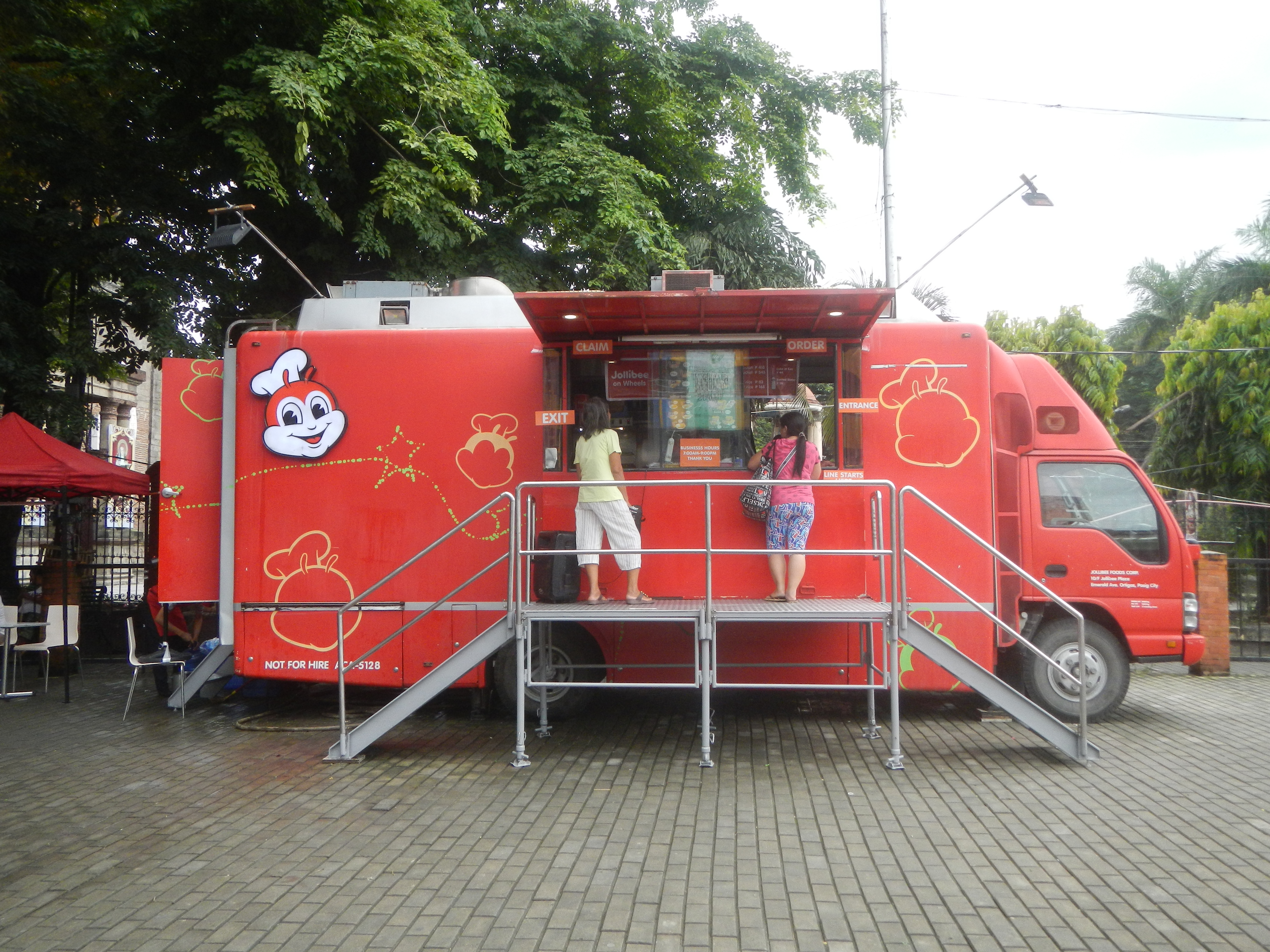 Jollibee on Wheels in Barangay Poblacion 14°57'17"N 120°54'2"E, Baliuag, Bulacan, Bulacan province (Note: Judge Florentino Floro, the owner, to repeat, Donor Florentino Floro of all these photos hereby donate gratuitously, freely and unconditionally all these photos to and for Wikimedia Commons, exclusively, for public use of the public domain, and again without any condition whatsoever).